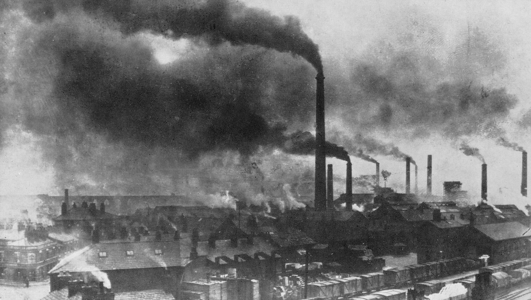 Photograph of Widnes in the late 19th century showing the effects of industrial pollution